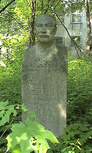 Statue – István Szabó Jr.: János Széki, professor. Miskolc-Egyetemváros, Hungary